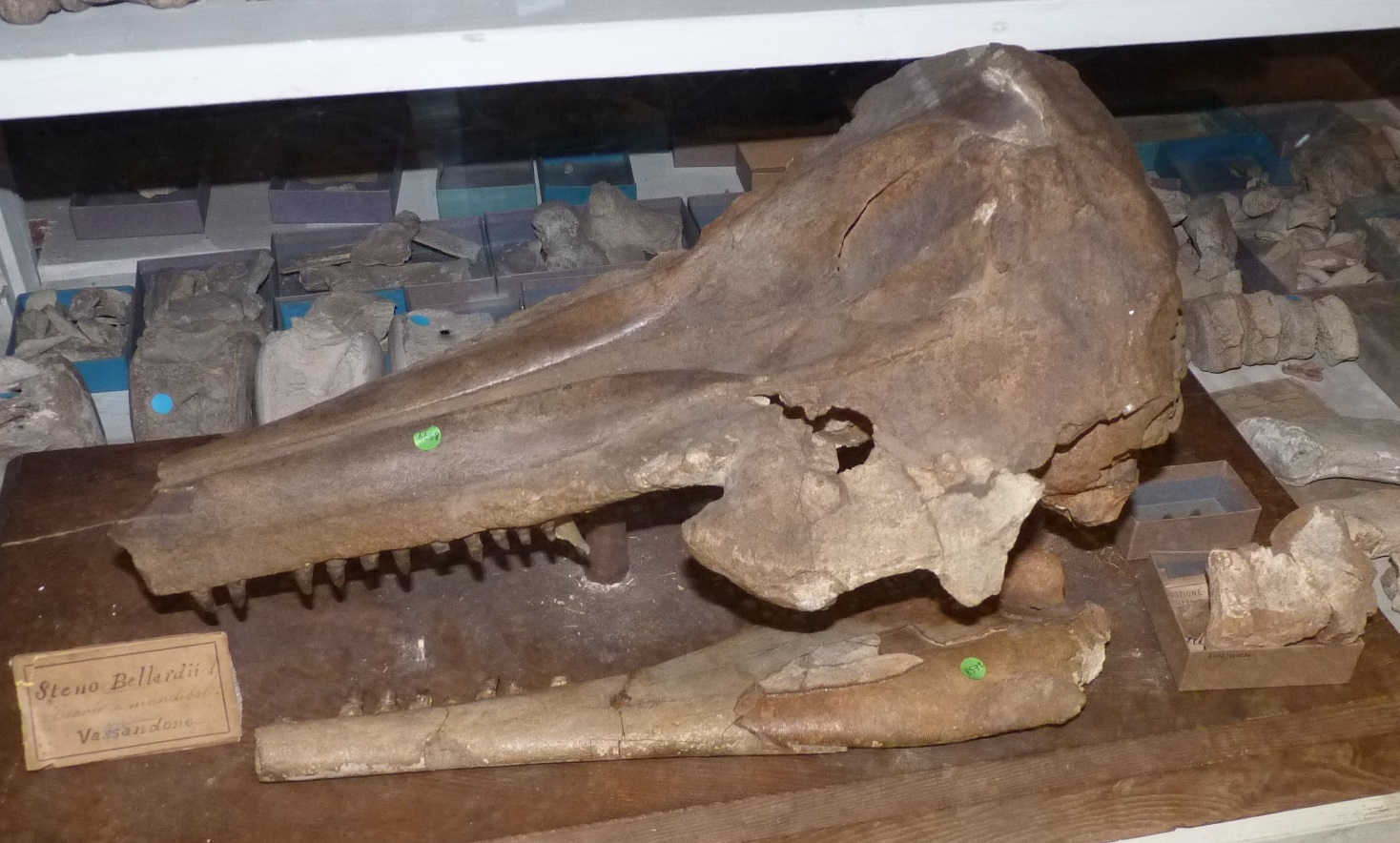 Skull of Etruridelphis giulii (formerly Steno bellardii), a fossil dolphin. Original from the Pliocene near Pisa (Italy), now lost. Museo Geologico Giovanni Capellini, Bologna.